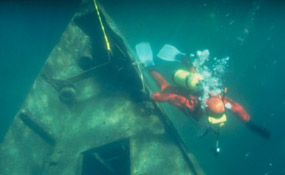 Diving the America, Isle Royale national Park.